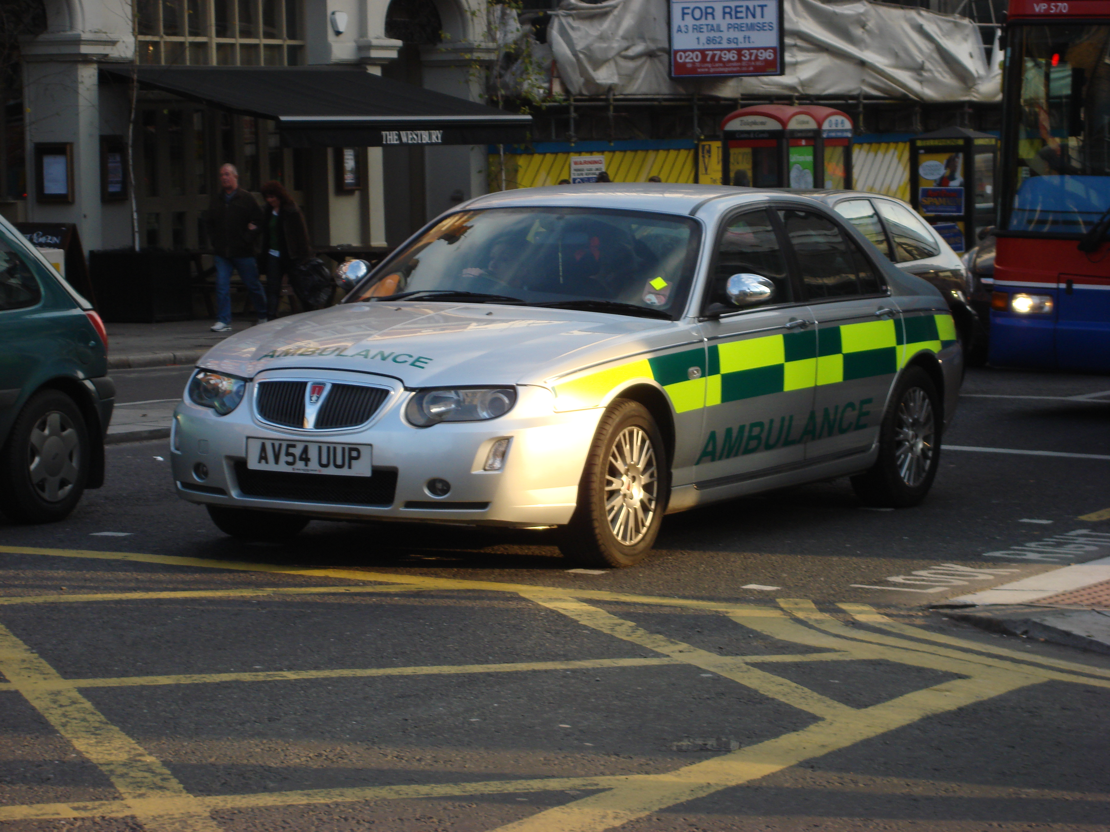 Rover 75 Ambulance, London